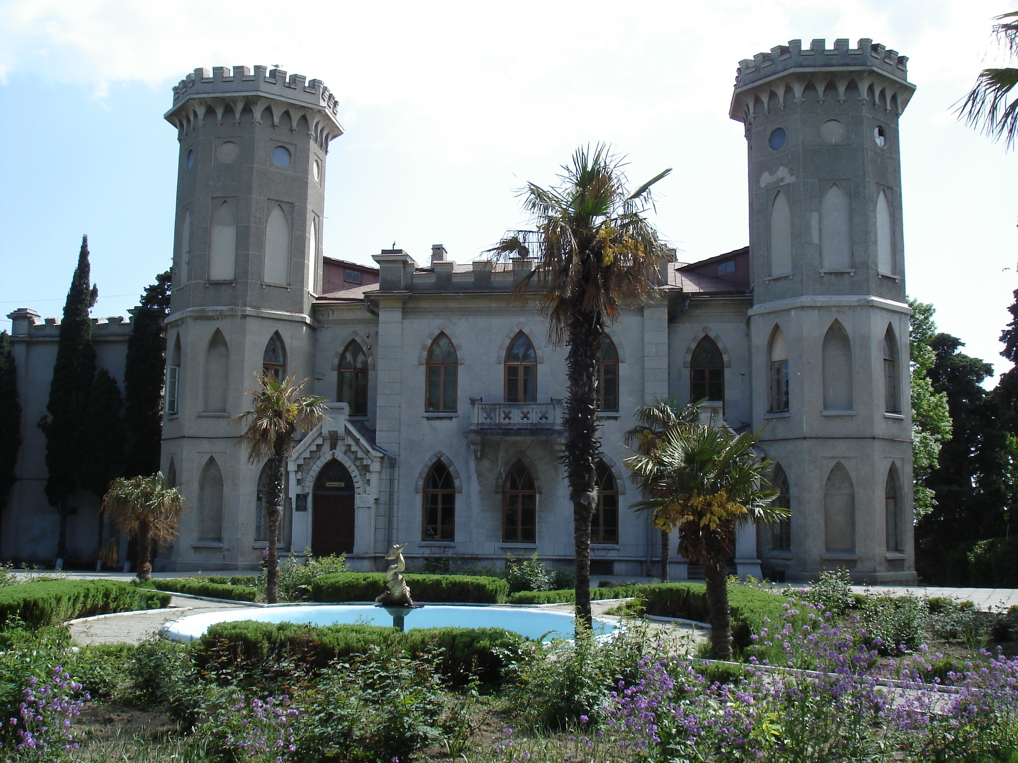 The Gaspra Palace, 1831-36